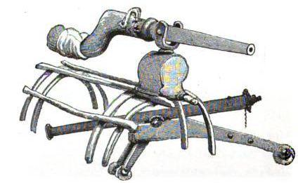 Two styles of zamburaks which were in use by the Sikh Empire